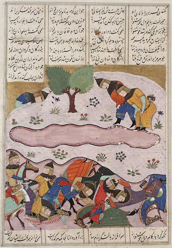 Iran, Shiraz, circa 1485-1495 Manuscripts Ink, opaque watercolor, and gold on paper The Nasli M. Heeramaneck Collection, gift of Joan Palevsky (M.73.5.23) Islamic Art